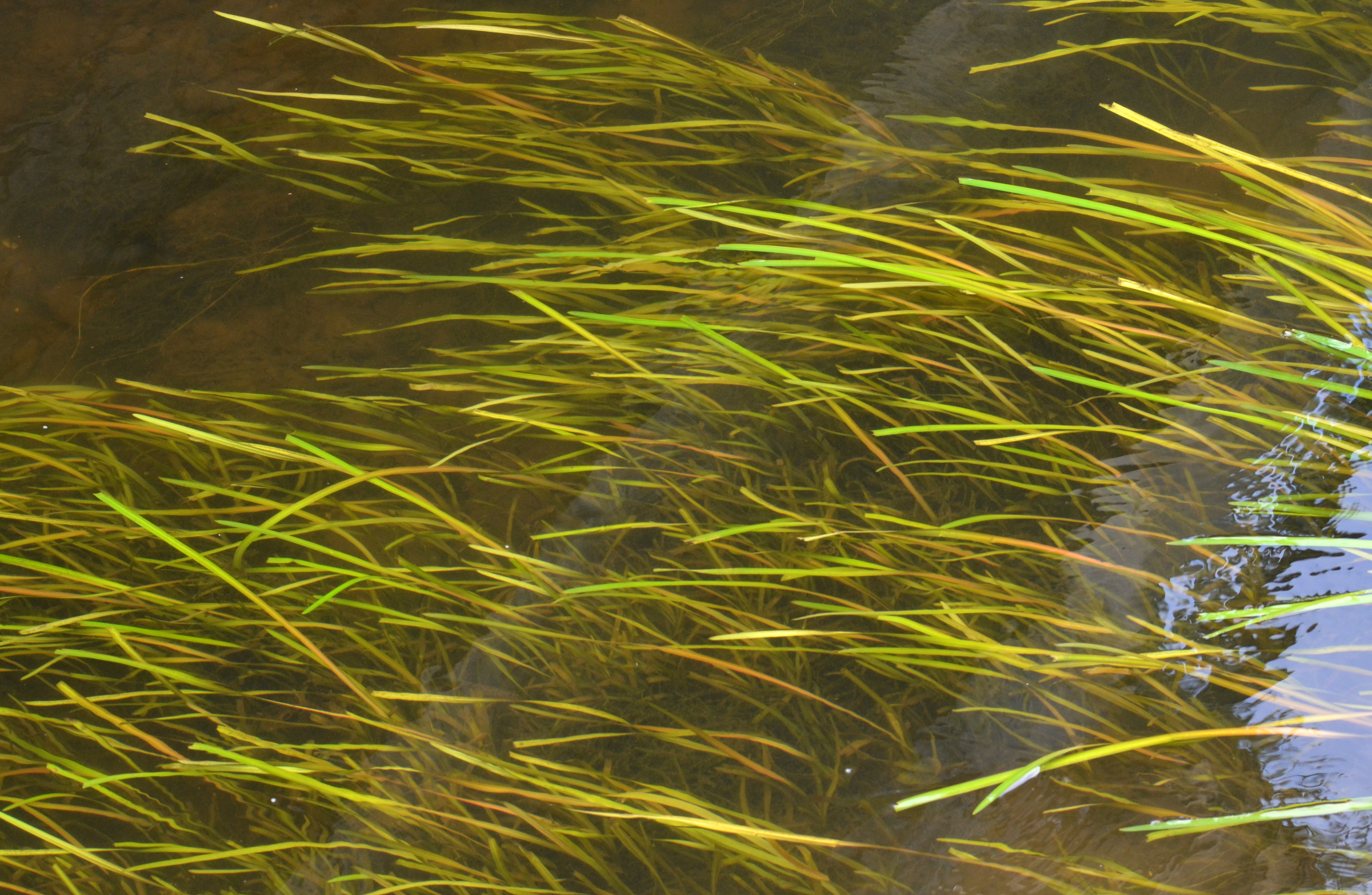 Underwater mainly composed of Vallisneria spiralis waving in the current ; shot in the Dronne River at Bantôme (France) mid-August 2014, in front of the Abbaye Saint-Pierre de Brantôme